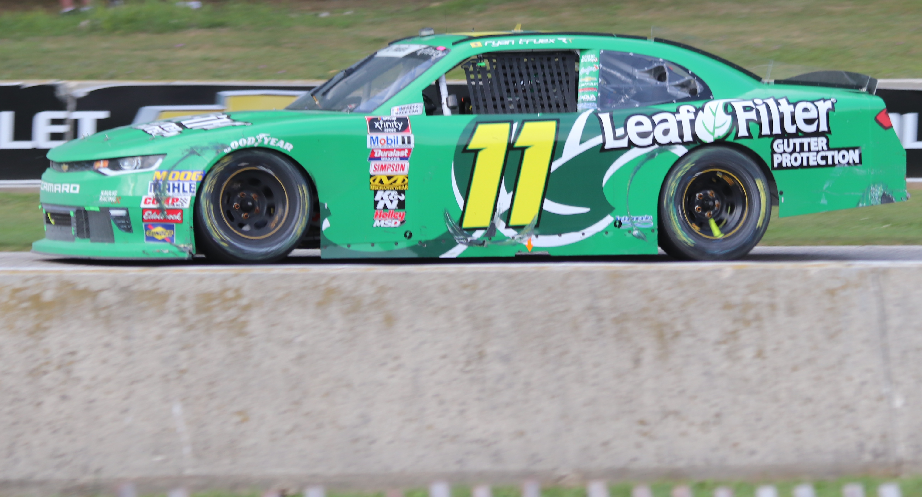 The Chevrolet Camaro of Ryan Truex at the NASCAR Xfinity Series Johnsonville 180.